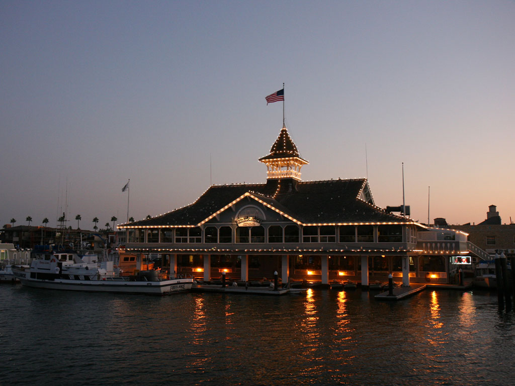 Balboa Pavilion in Newport Beach, California, a historic building.